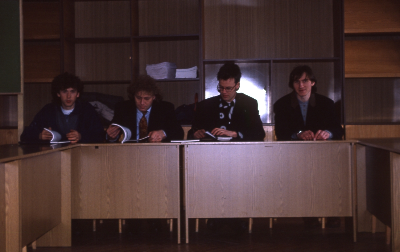 Презентация «чёрного доклада», 1 марта 1994 год, Мурманск. Томас Нильсен, Фредерик Хауге, Нильс Бёмер, Игорь Кудрик